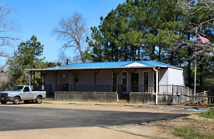 Post Office. Zipcode 75784. Reklaw, Texas, USA.